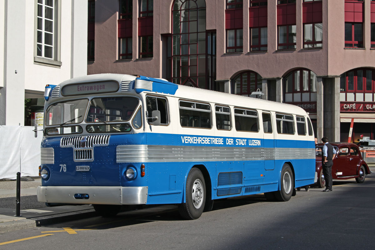 This Twin Coach/Hercules 38-S-DT was built in 1948. Between 1953 and 1975 it was used in regular service by Verkehrsbetriebe Luzern a busoperator in Lucerne, Switzerland. Since 1983 it is kept as an oldtimer by this company. Here you can see it on a special course in Lucerne.